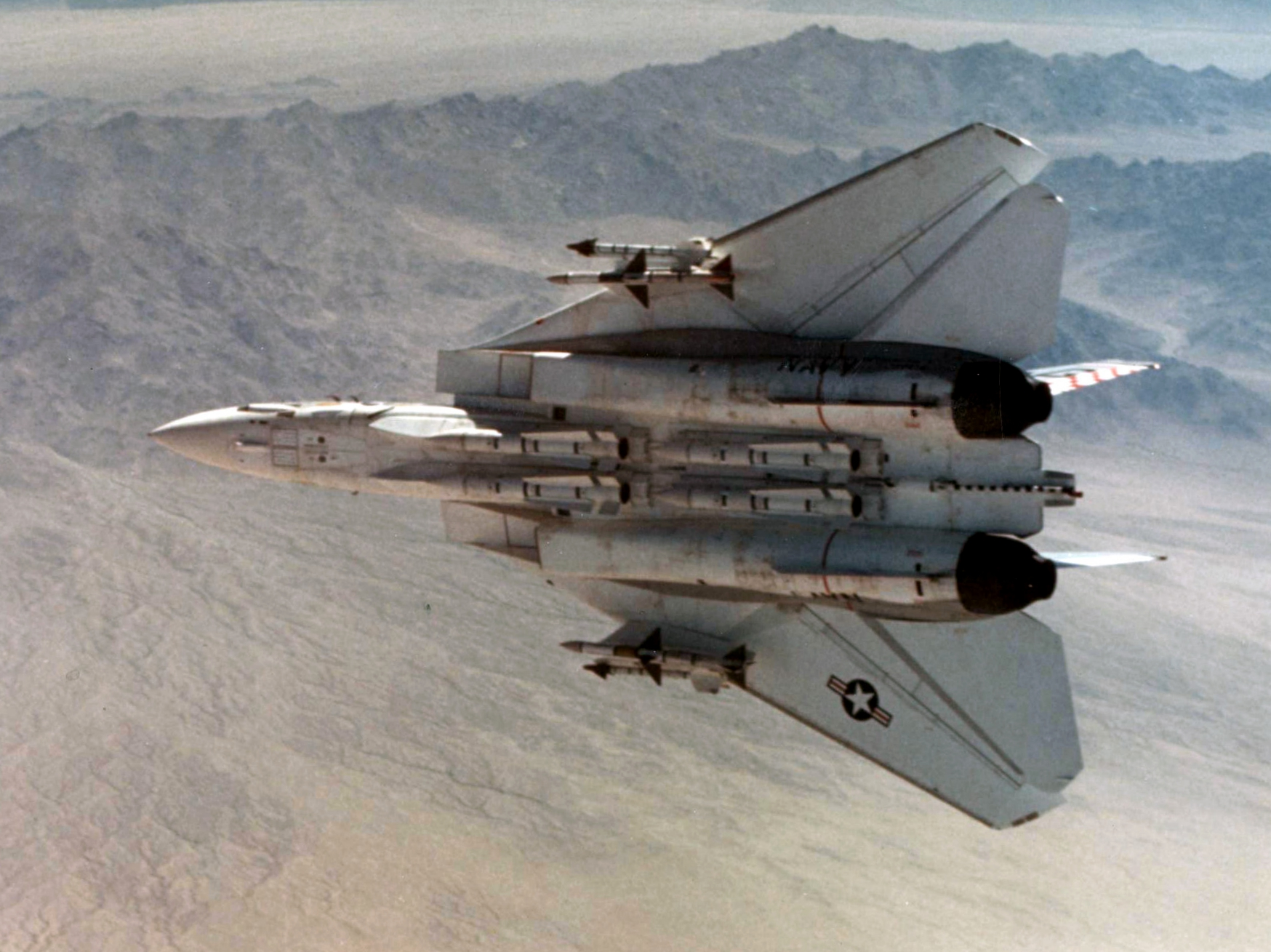 A U.S. Navy Grumman F-14A Tomcat of Fighter Squadron VF-211 "Checkmates" armed with four AIM-54A Phoenix missiles, two AIM-7E Sparrow missiles, and two AIM-9D Sidewinder missiles. VF-211 transitioned to the F-14A in 1976 and was assigned to Carrier Air Wing 9 (CVW-9).